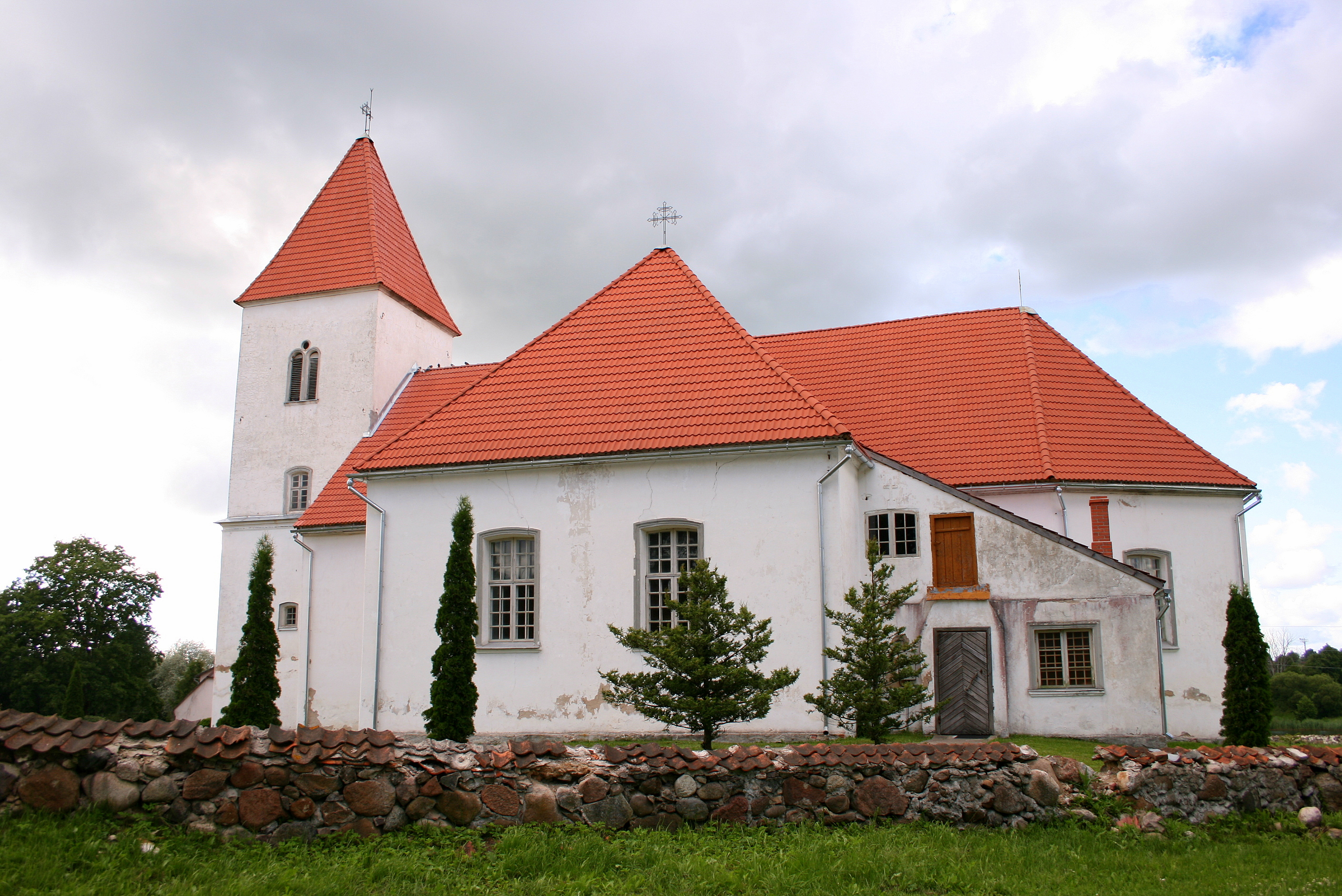 Alsunga Saint Michael Roman Catholic ChurchLatviešu: Alsungas Svētā Miķeļa Romas katoļu baznīca